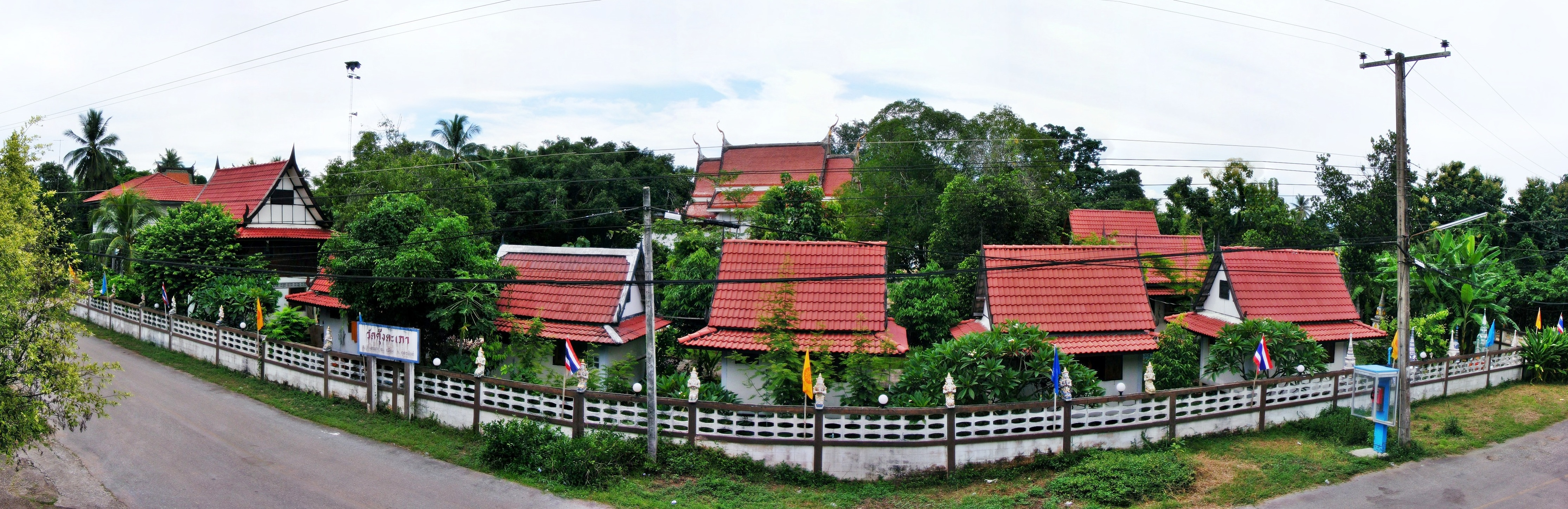 Panorama in Wat Khung Taphao. Ban Khung Taphao, Khung Taphao subdistrict, Mueang Uttaradit, Uttaradit Province, Thailand. on March 17, 2009.